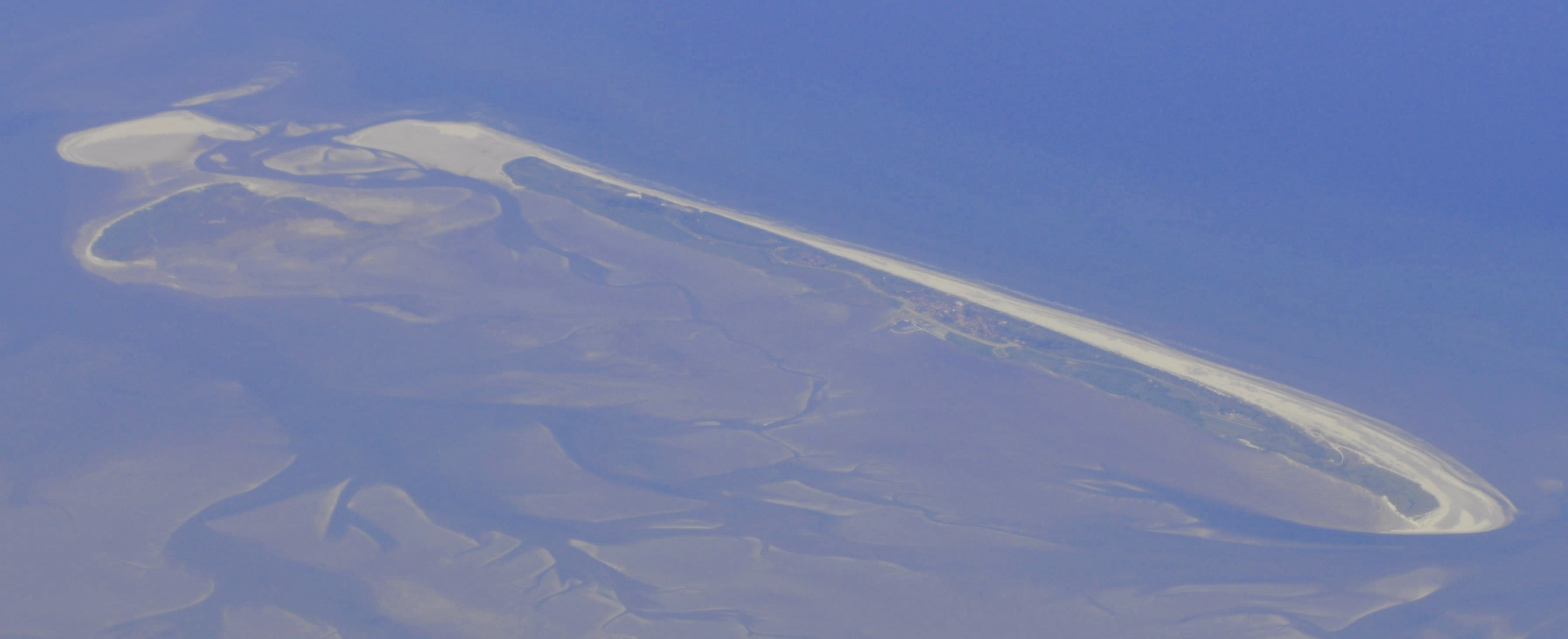 Juist, Memmert and Kachelotplate from the air